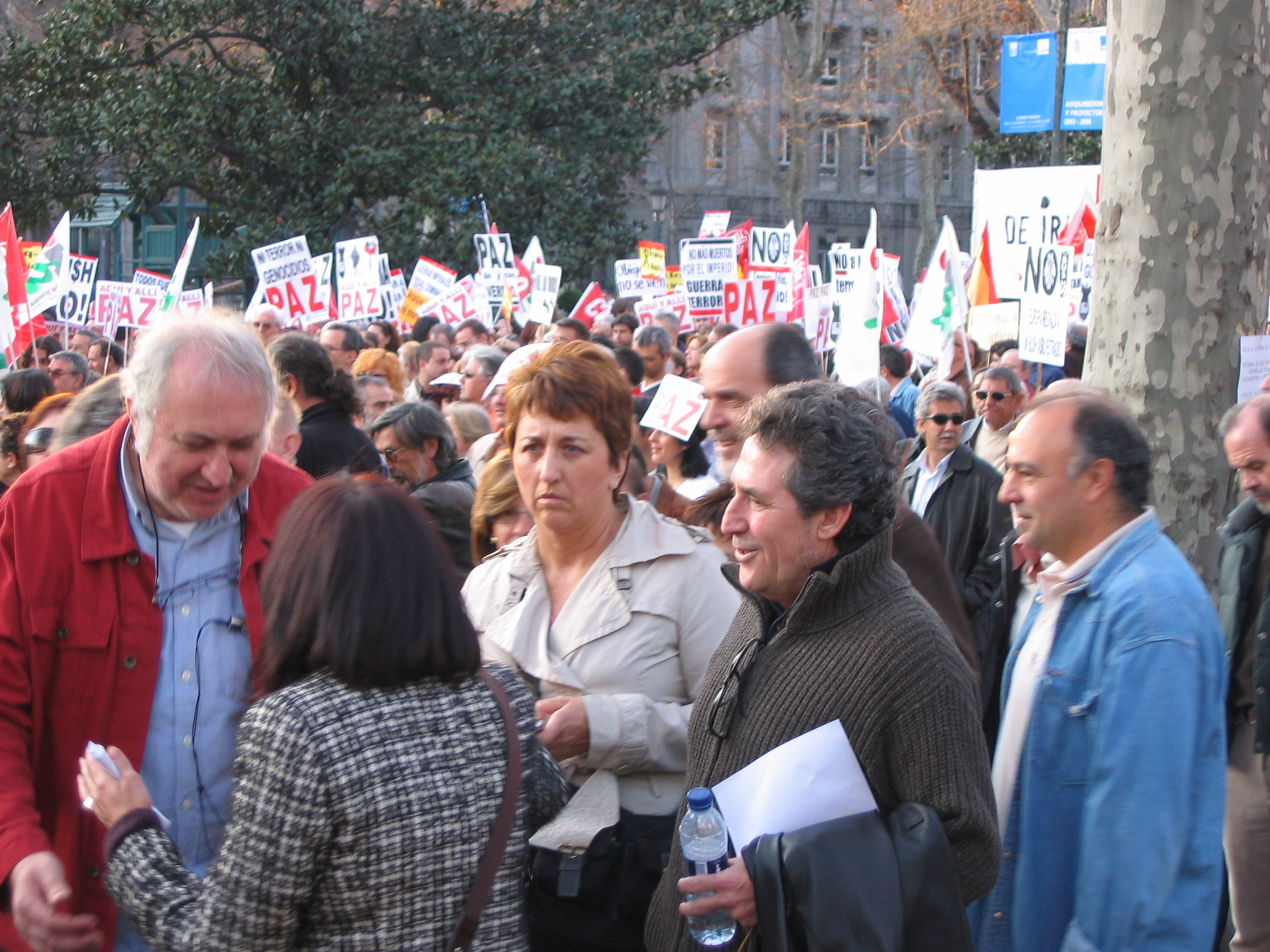 Miguel Ríos in a demonstration in Madrid (Spain) against the war on Iraq